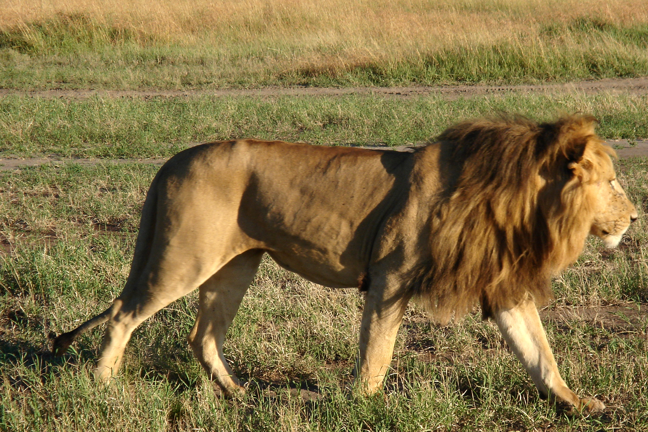 Lion in Masai Mara, Kenia